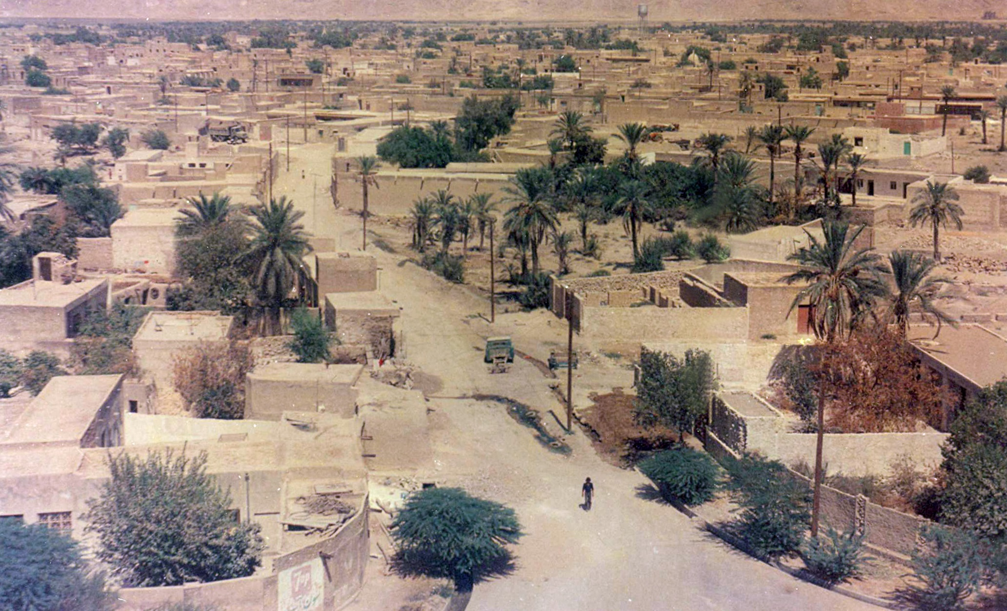 Ramhormoz - 1971